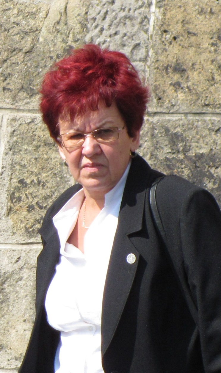 Milada Halíková, Member of Parliament of the Czech Republic